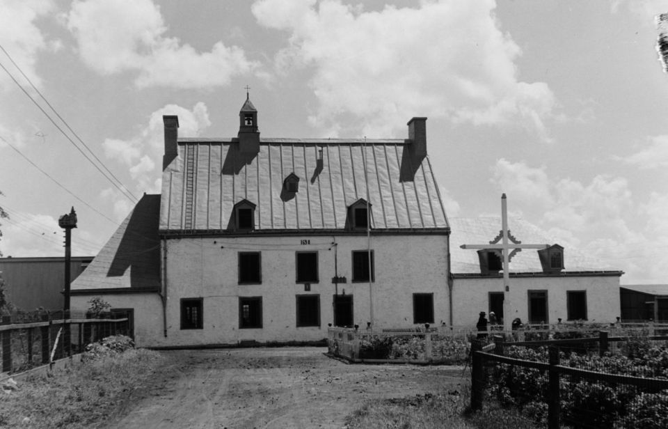 We see the facade of the convent of the Sisters of the Congregation in Pointe-Saint-Charles in the south-west of Montreal. This is a Canadian-style house with a steep roof with a ladder, skylights and a bell tower. We see a wooden cross, a birdhouse and a wire fence in front of the building.